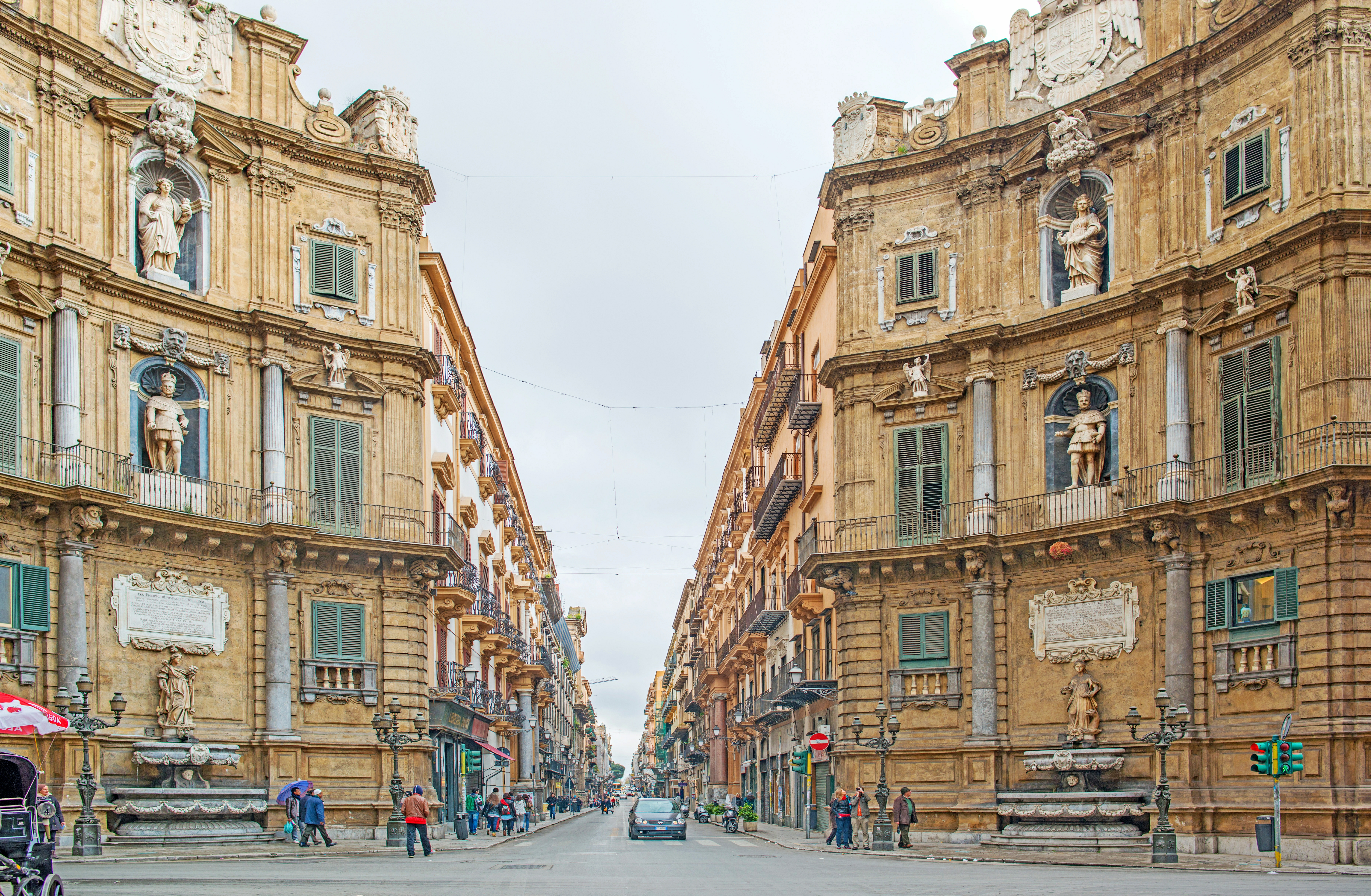 Palermo Sicily February 2013